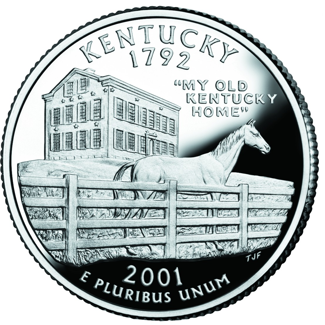 The reverse side of the Kentucky State Quarter. It is a "proof" obtained from the US Mint website and losslessly converted from TIFF to PNG with ImageMagick.